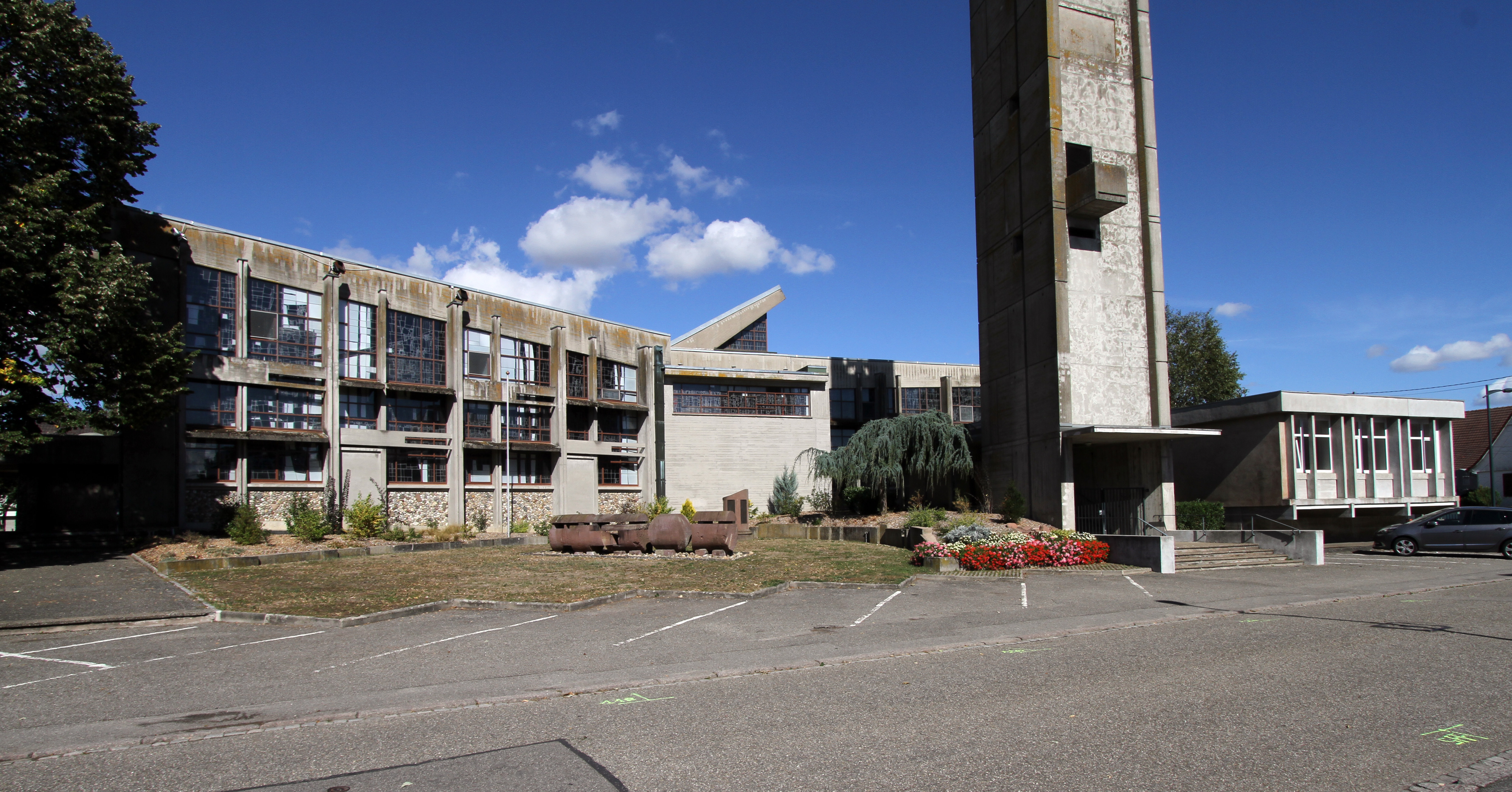 Church of St. Arbogast in Herrlisheim.